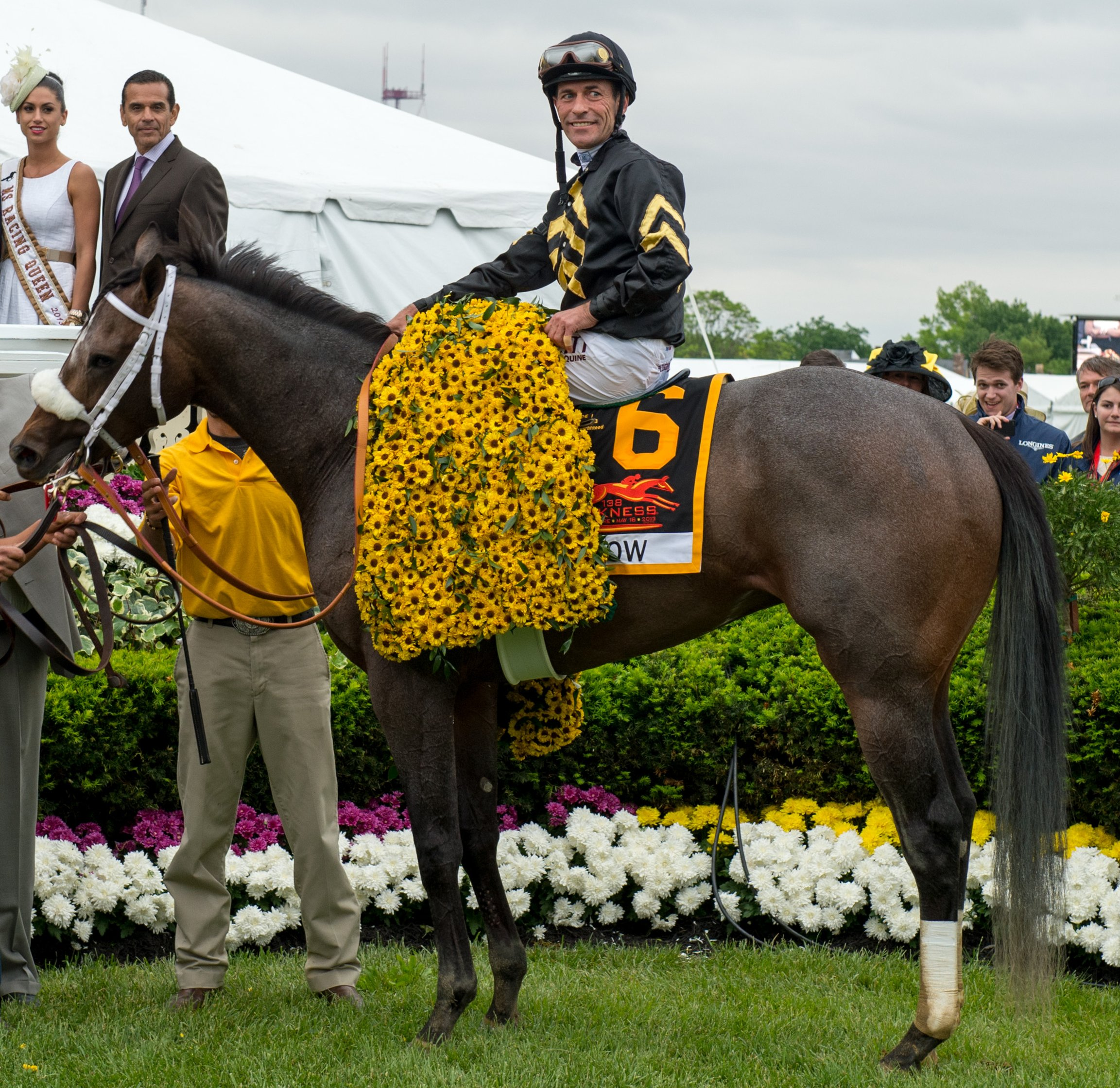 The 138th Annual Preakness. by Jay Baker at Baltimore, MD.